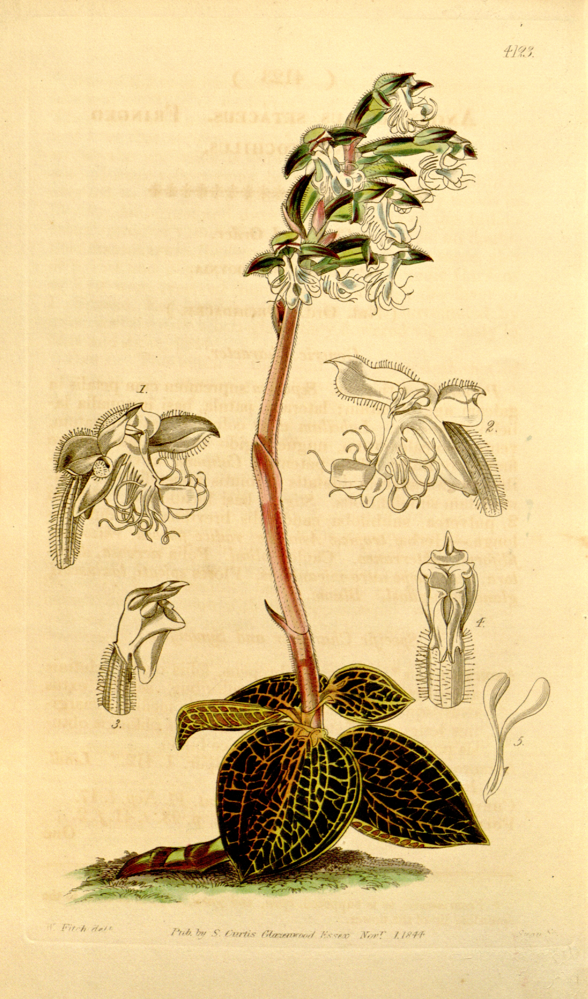 Illustration of Anoectochilus setaceus